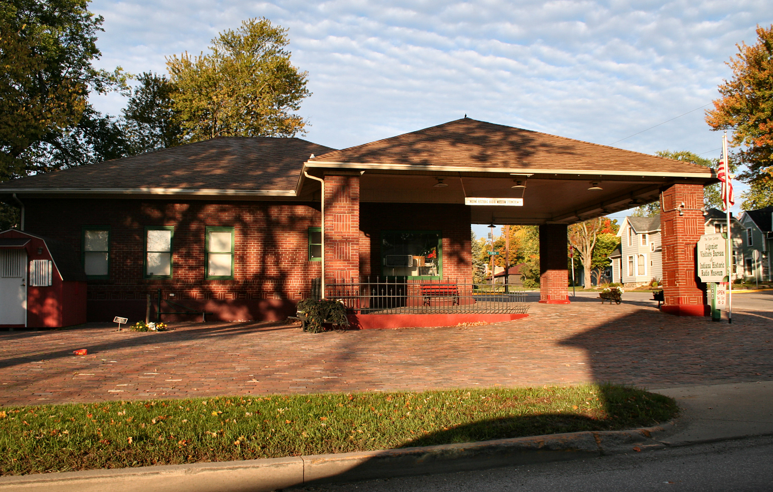 Ligonier Visitors Center in Ligonier, Indiana. Photo shot by Derek Jensen (Tysto), 2005-October-17